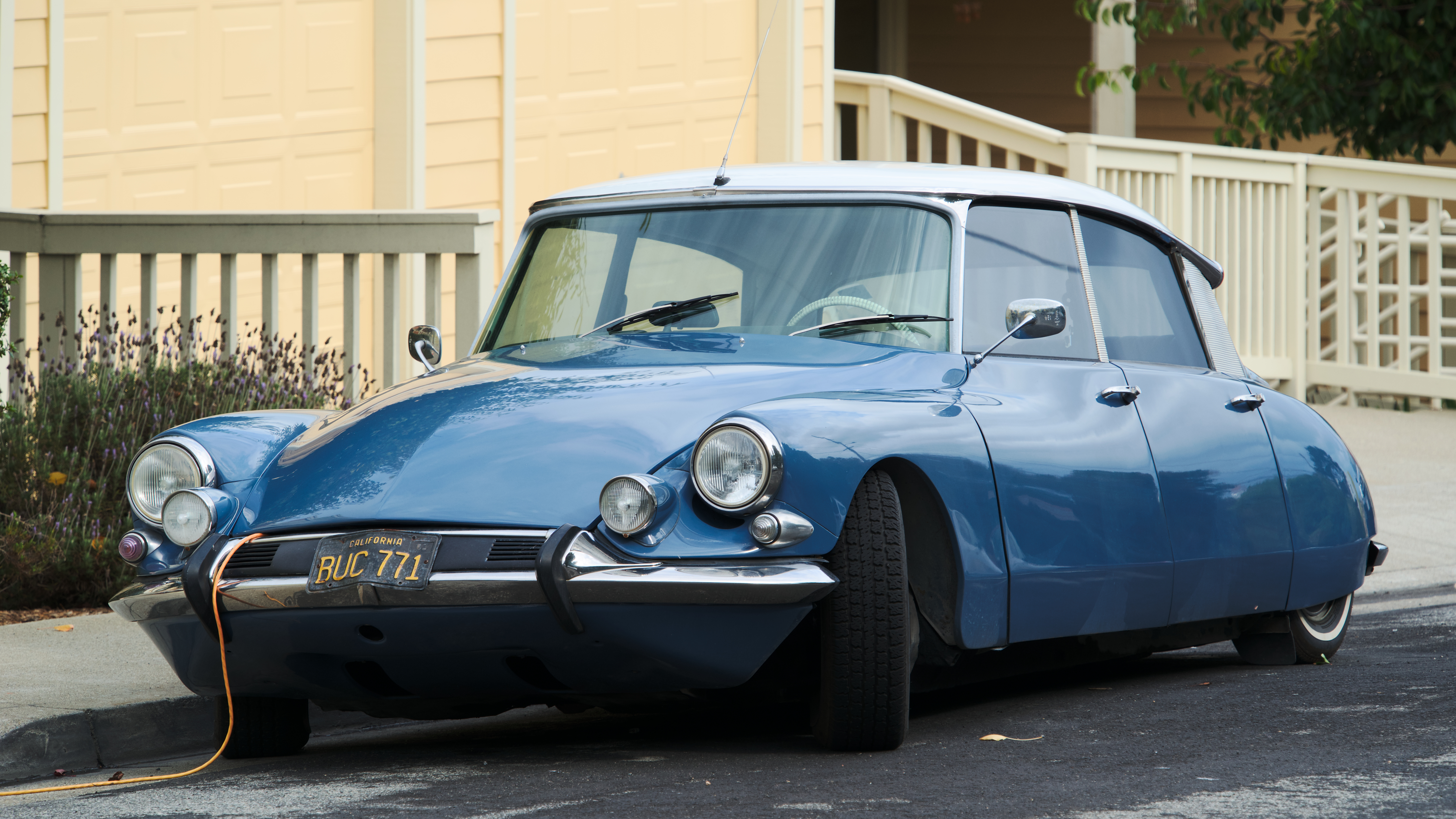 A US-spec Citroën DS in San Francisco.